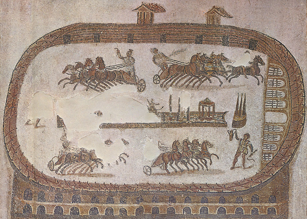 The architecture of the Carthage Circus